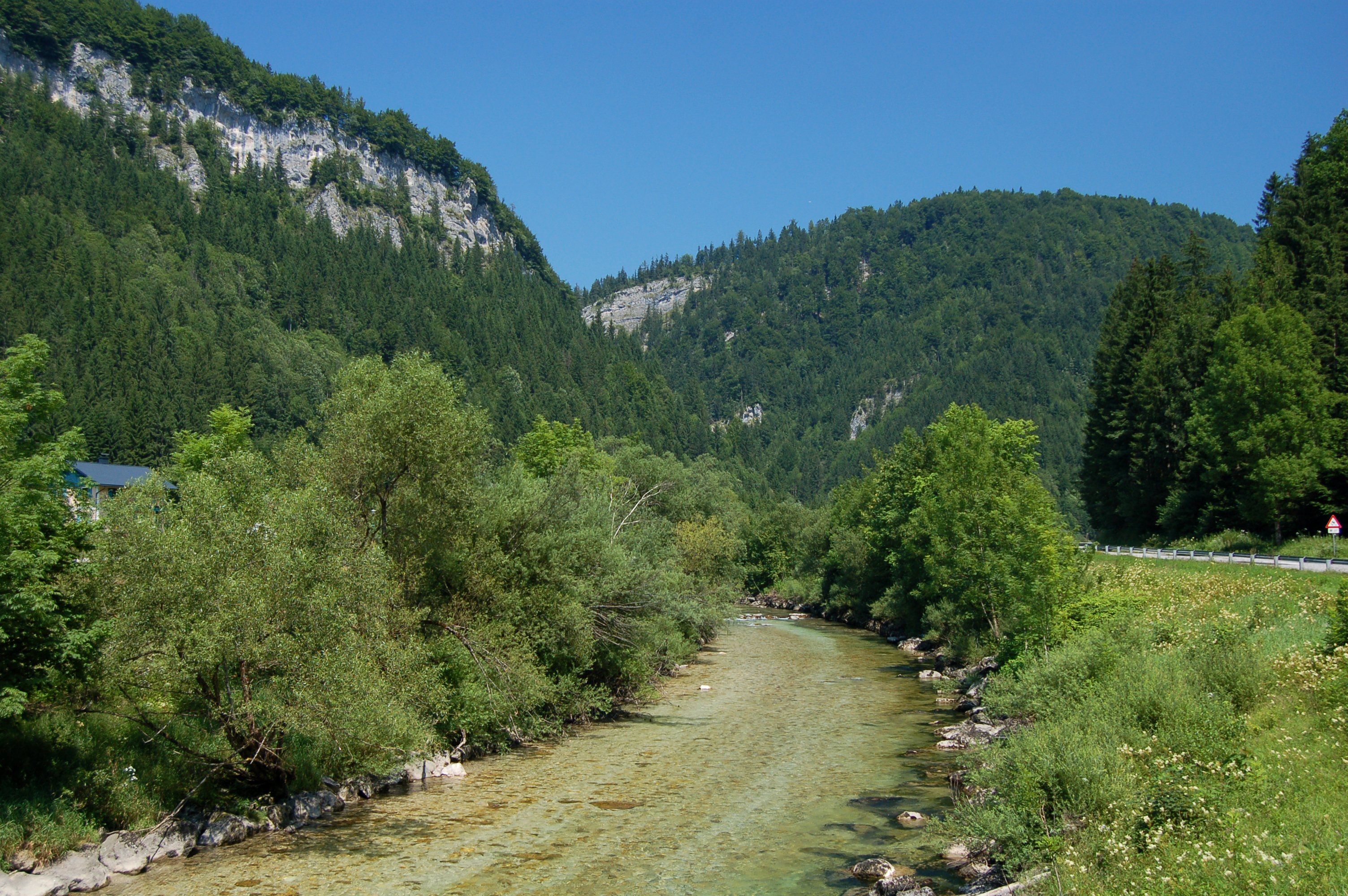 Ybbs River near train stop Stiegengraben - Ybbstaler Hütte of the narrow gauge Ybbstalbahn. Looking towards the entry of the Stiegengraben. The rocks are built from calcarous stones of the Opponitz-Formation